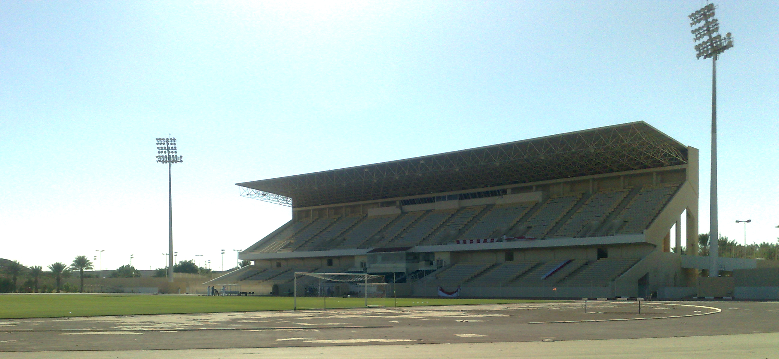 Prince Salman Bin Abdulaziz Sport City Stadium 2010